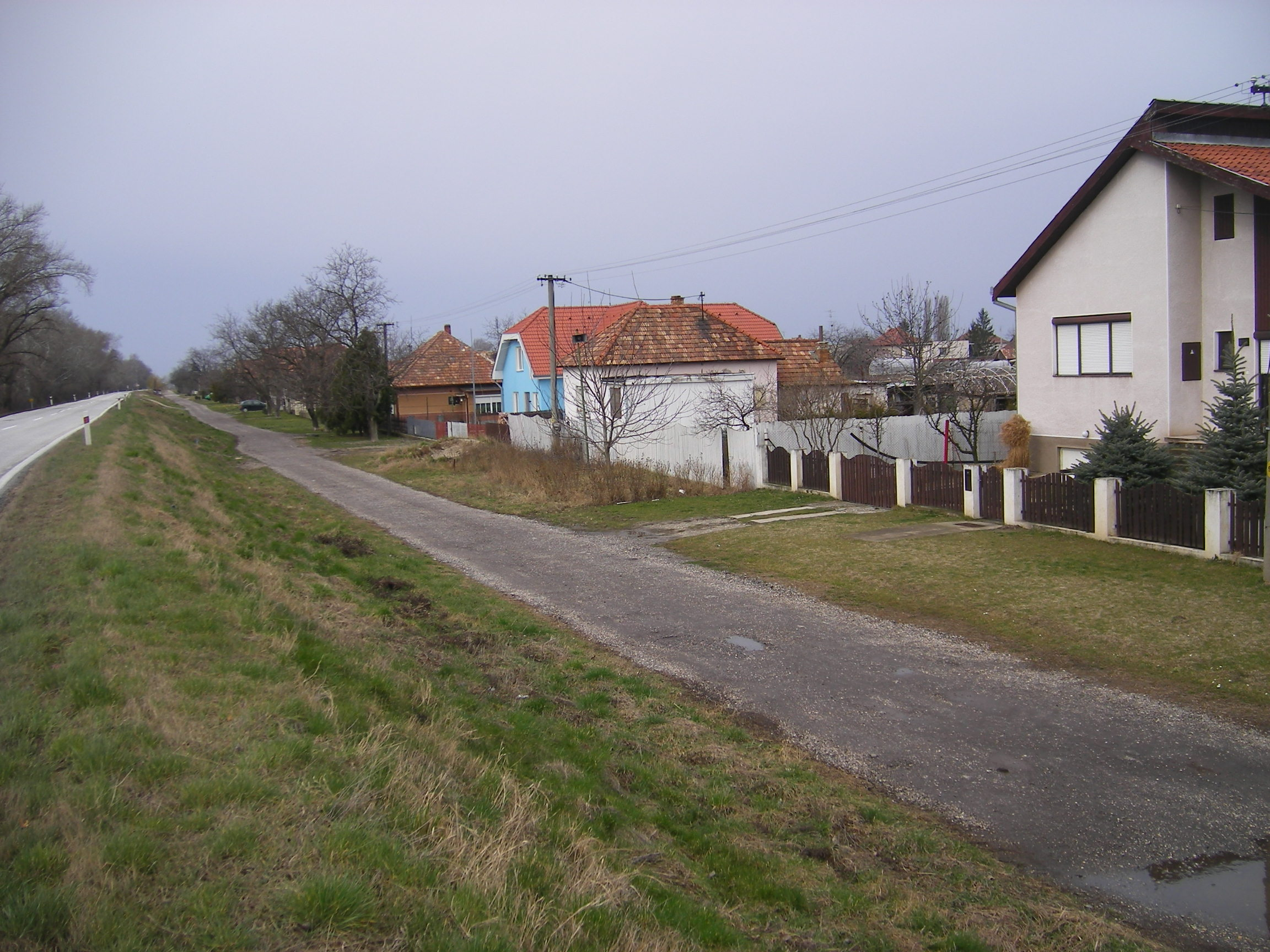 Patince - streetview.